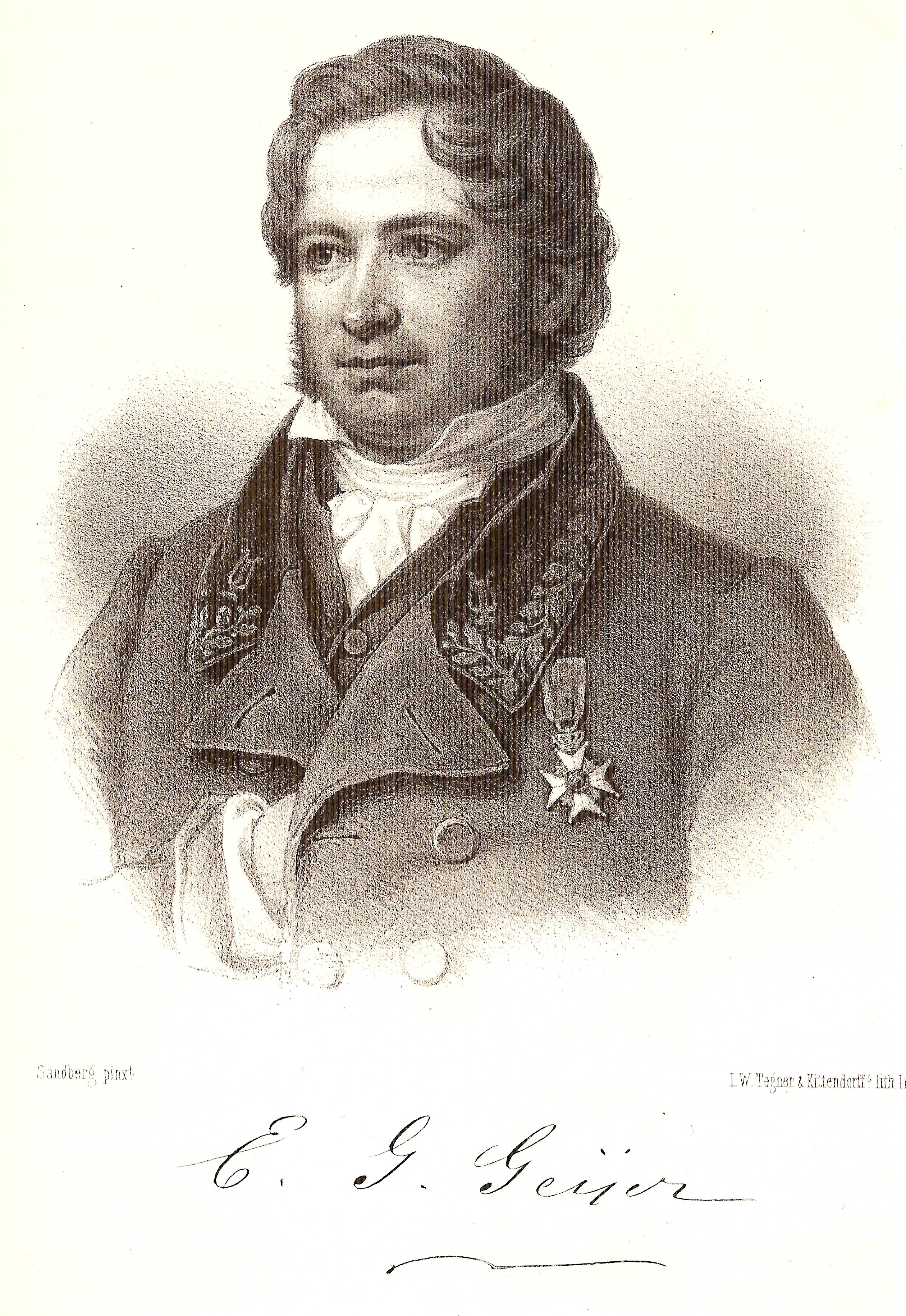 Picture of Erik Gustaf Geijer (1783-1847) with signature, swedish writer, poet, member of the Swedish Academy and professor of history from 1817 at Uppsala University. Picture taken from Samlade skrifter, 1875.